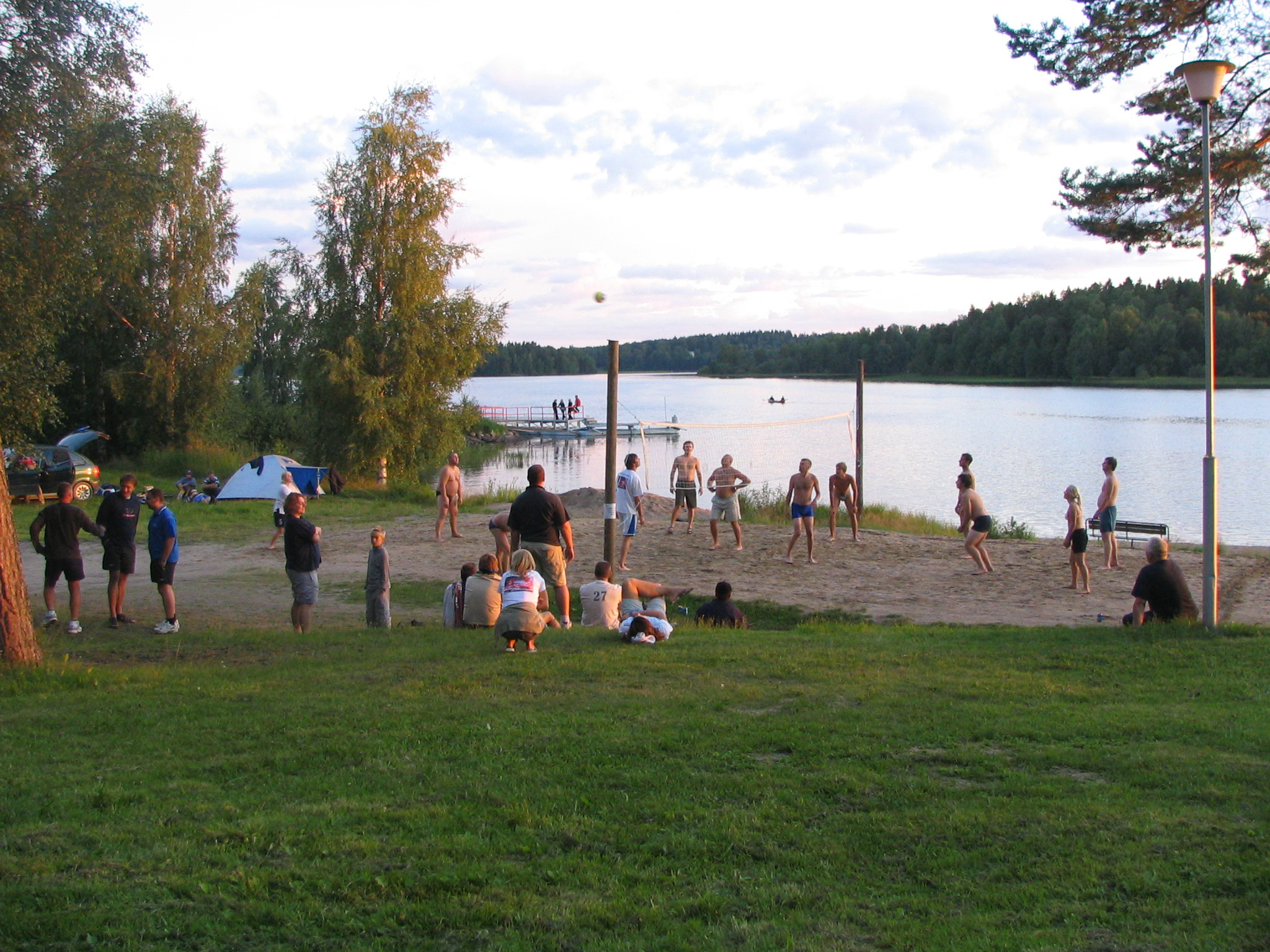 A beach at Camping Nyyssänniemi in Keuruu, Finland.